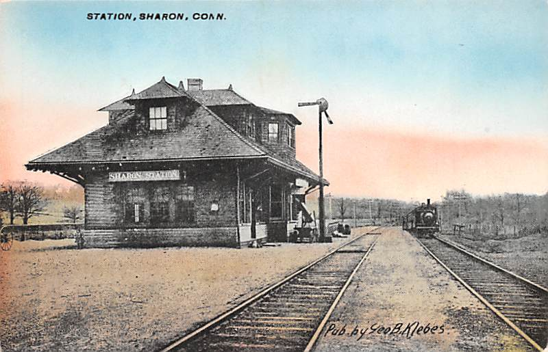 Early divided back postcard of Sharon station (actually in New York, but primarily serving the town of Sharon, CT)